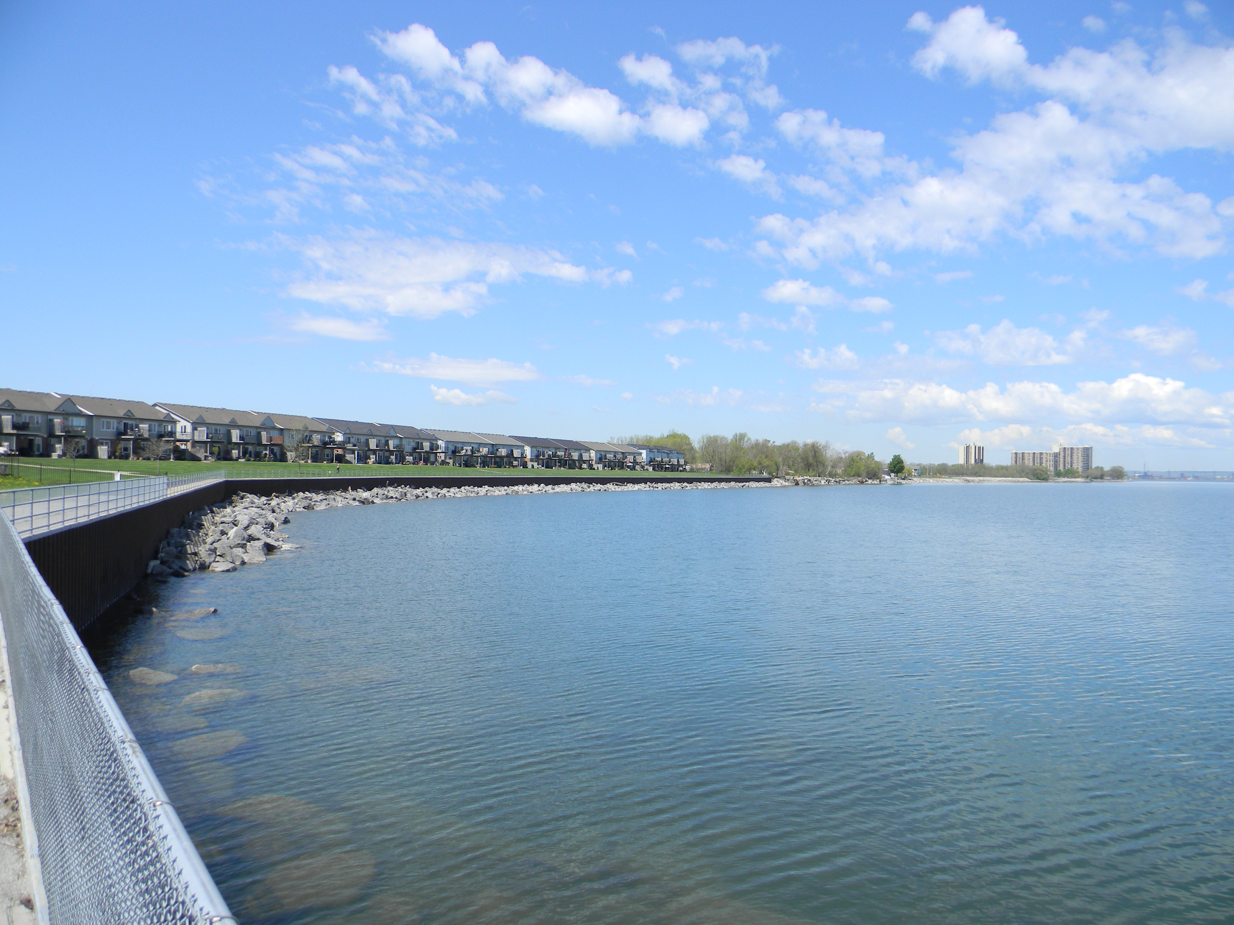 Stoney Creek, Ontario, Waterfront (Lake Ontario). City of Hamilton in far distance